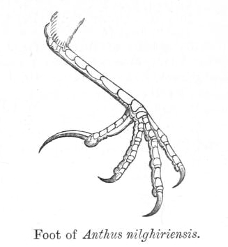 Toes and claw of Anthus nilghiriensis